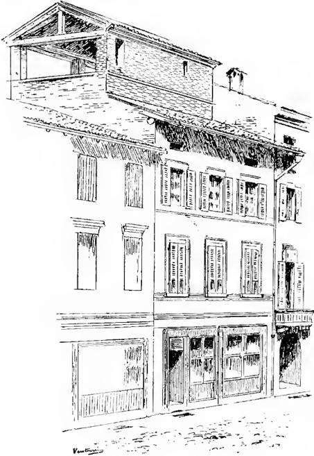 No. 2 Piazza San Domenico in Cremona, Italy; house of Antonio Stradivari